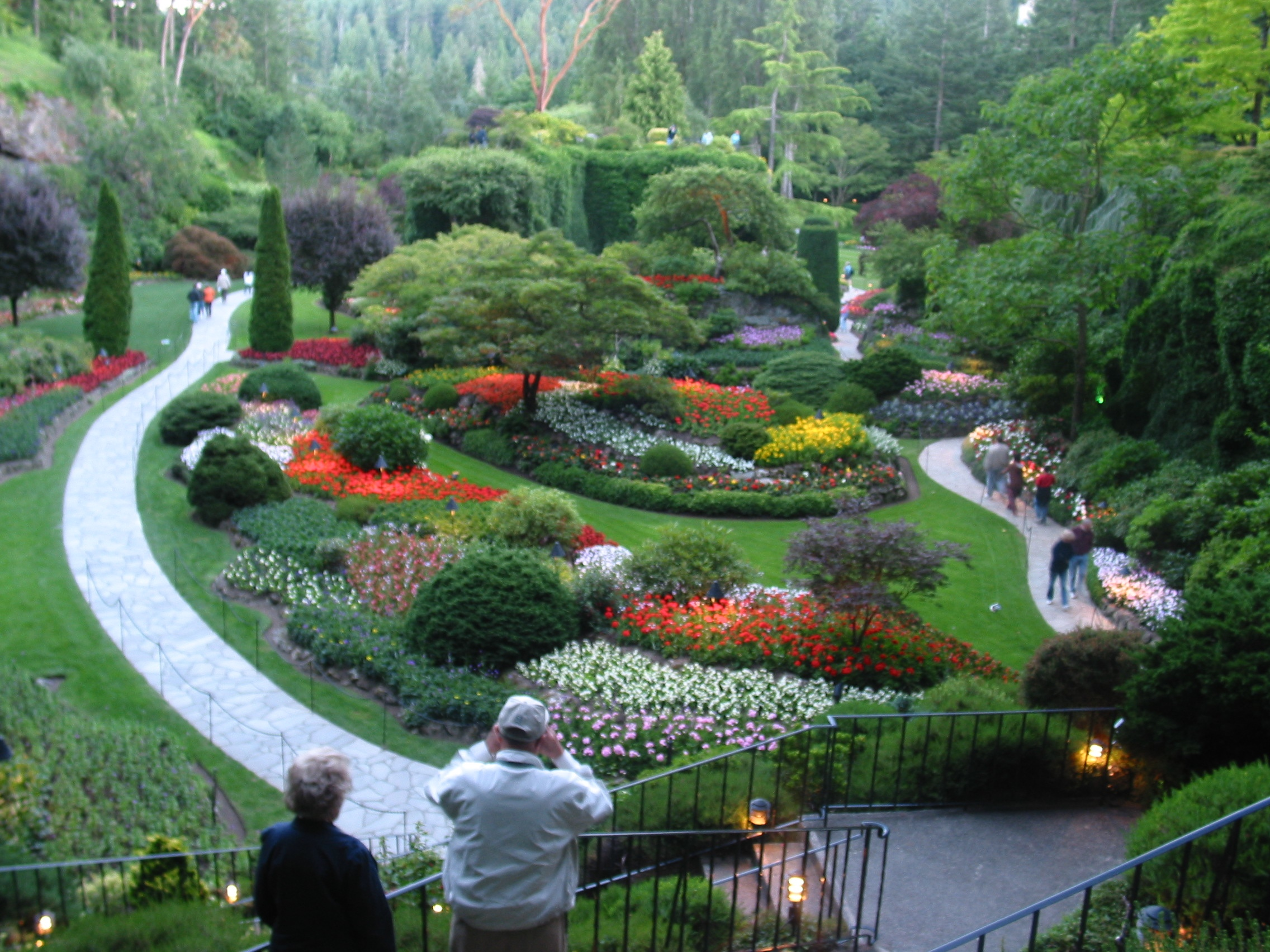 The Sunken Garden at Butchart Gardens in Victoria, BC